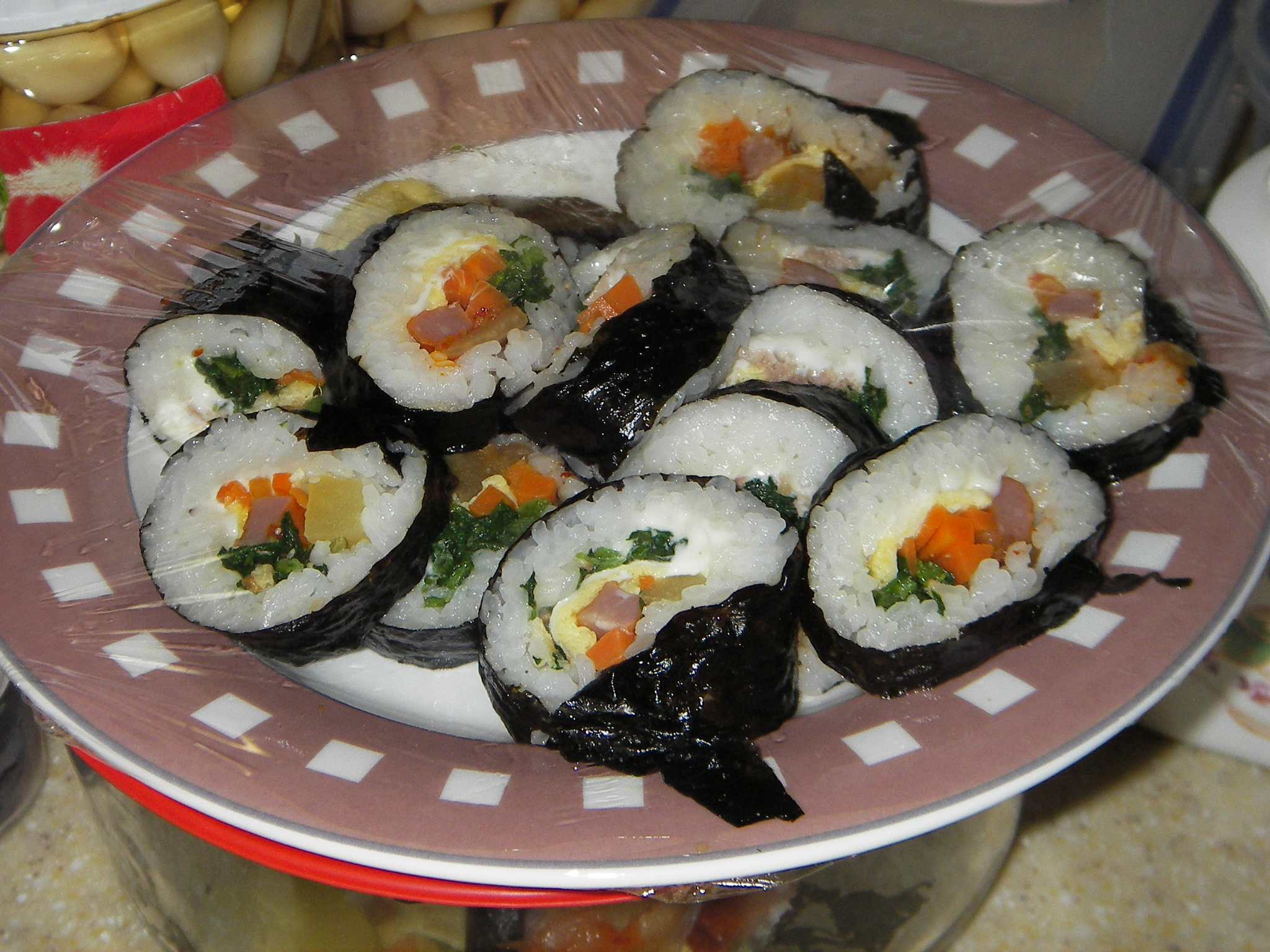 Gimbap. "Delicious sushi-resembling Korean food. One of its delicious ingredients: SPAM".